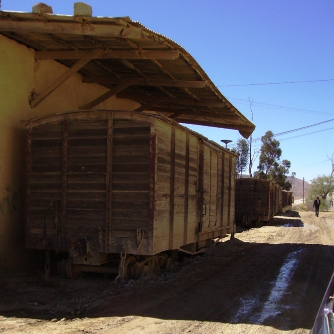 This medium shows the protected monument with the number Vagones en el olvido in Bolivia.